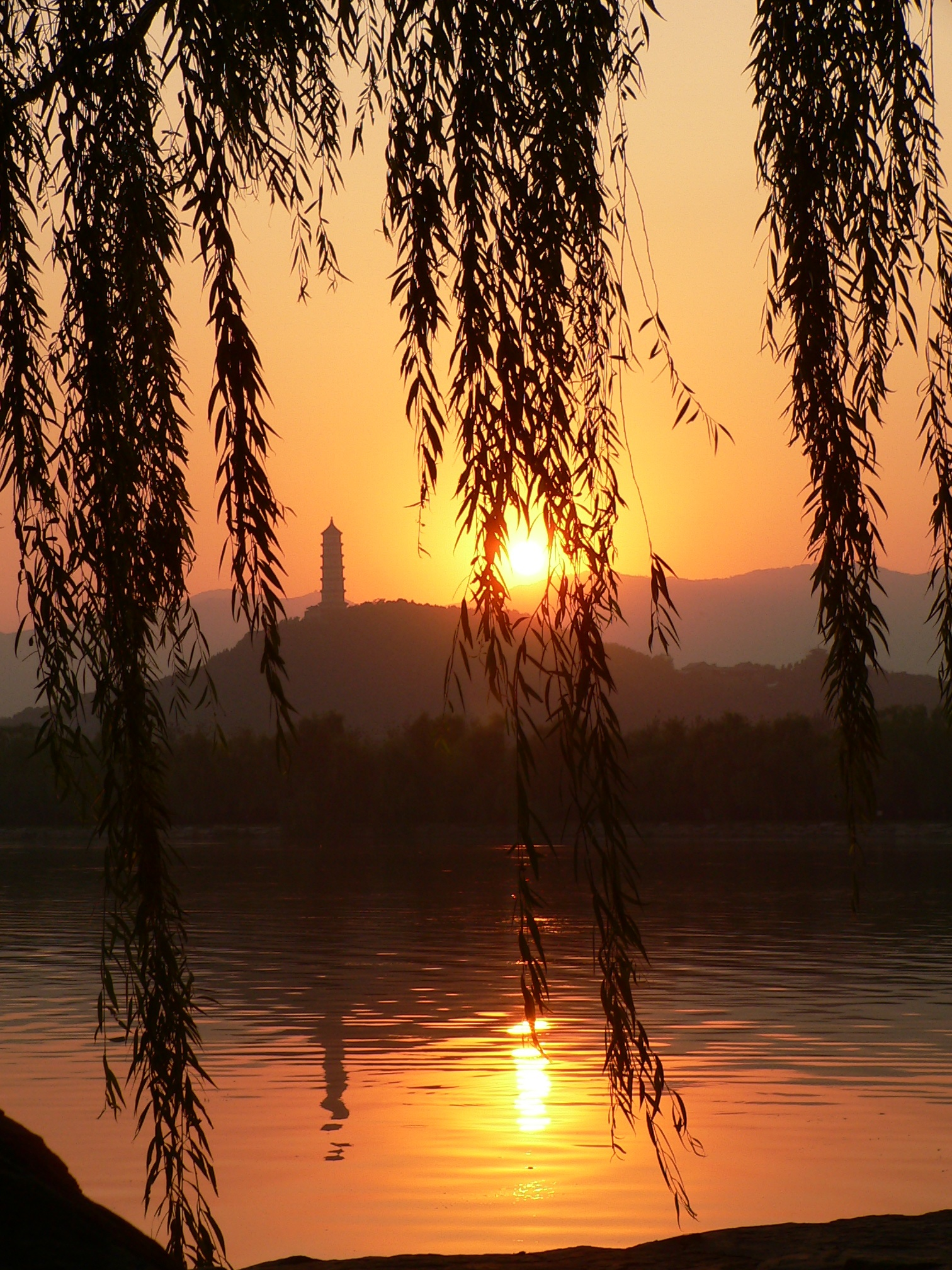 Sunset at the Summer Palace in Beijing